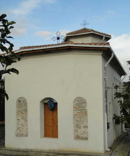 Niculitel - Bulgarian church "St. Athanasius" XIII-XIV c.